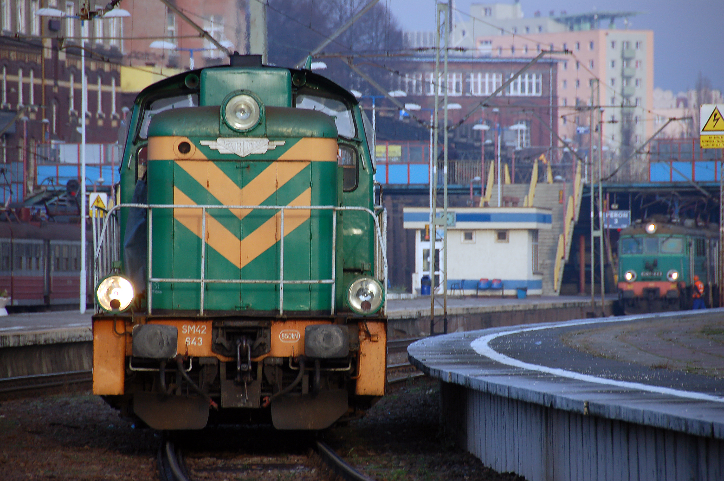 Stettin central train station